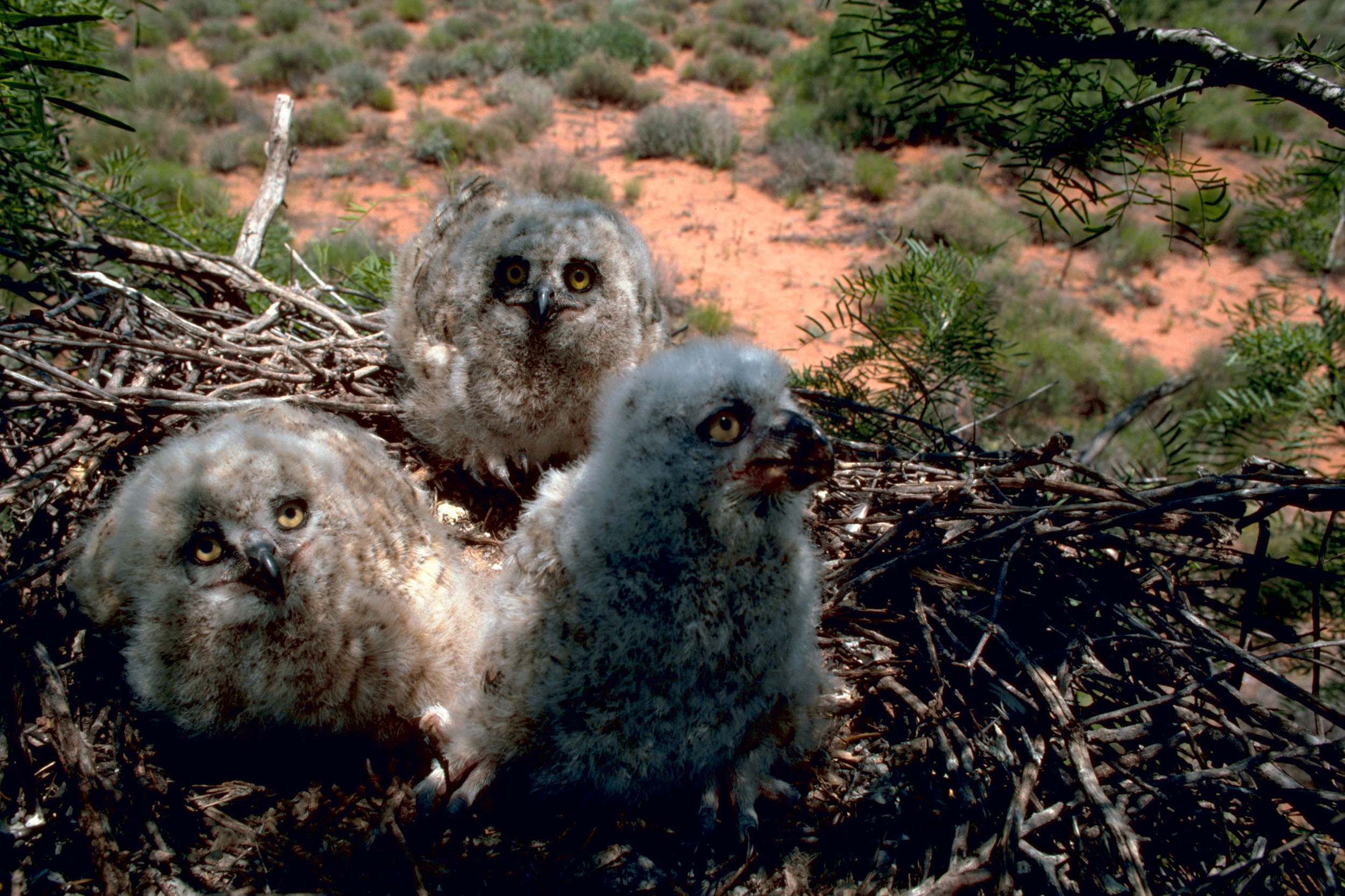 Baby Great Horned Owls that are 3 weeks old. Title: Great Horned Owl (3weeks) Creator: Stolz, Gary M. Source: WO-8325-031 Publisher: U.S. Fish and Wildlife Service Subject: bird of prey New Mexico